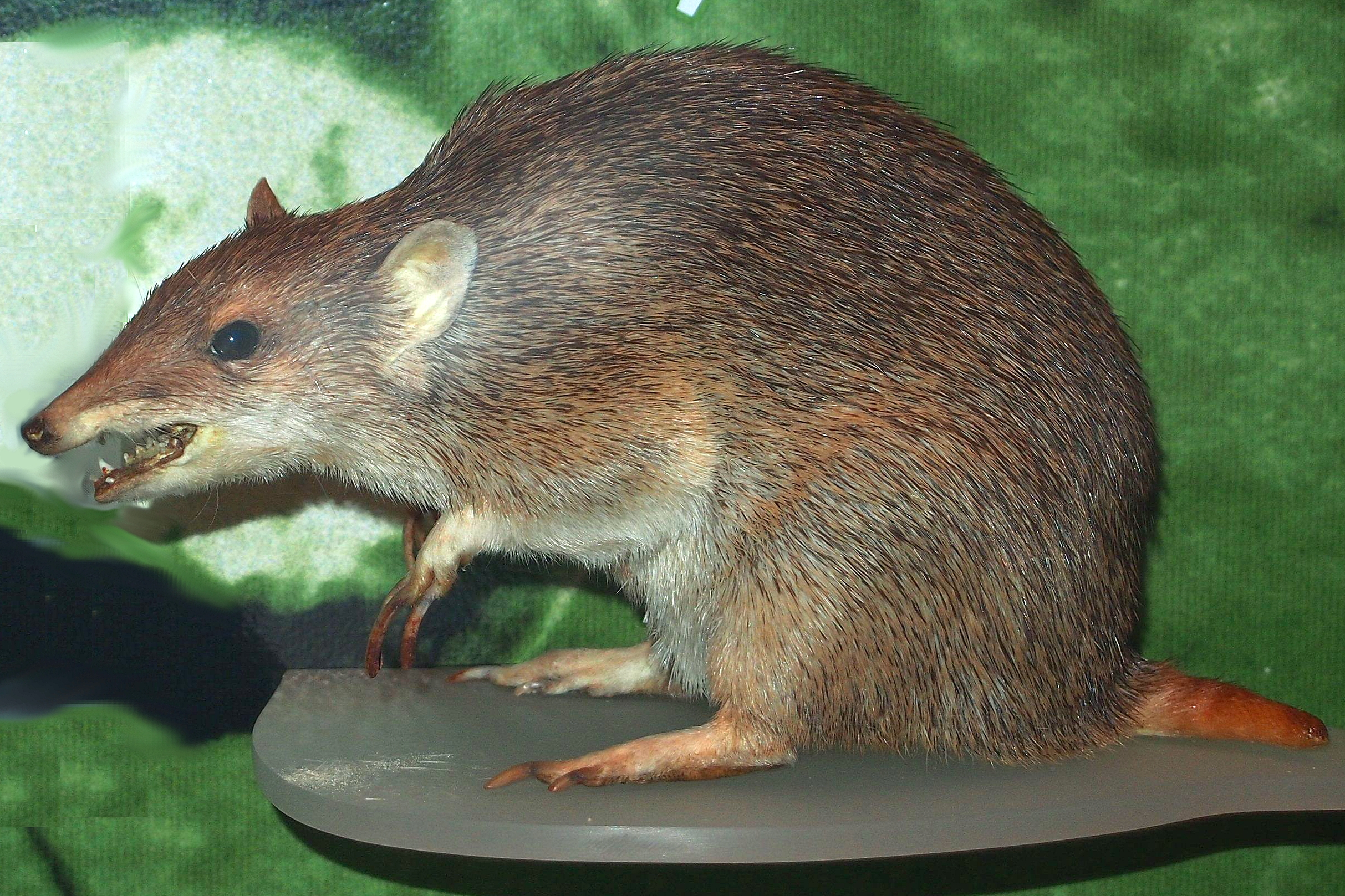 Isoodon auratus, mounted specimen, Central Australian Museum